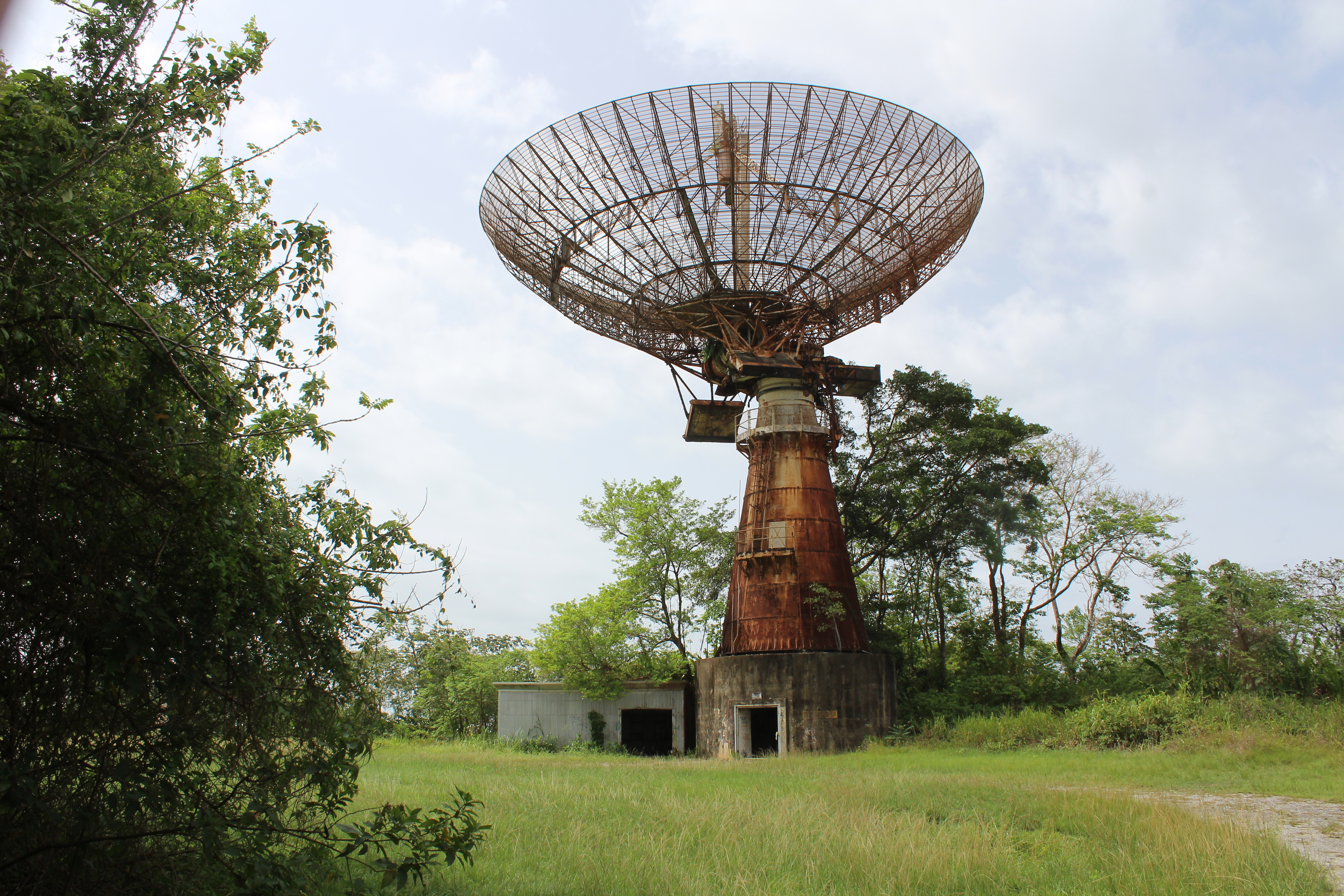 A former U.S. Air Force tracking station antenna located near Tucker Valley, Diego Martin, Trinidad and Tobago.